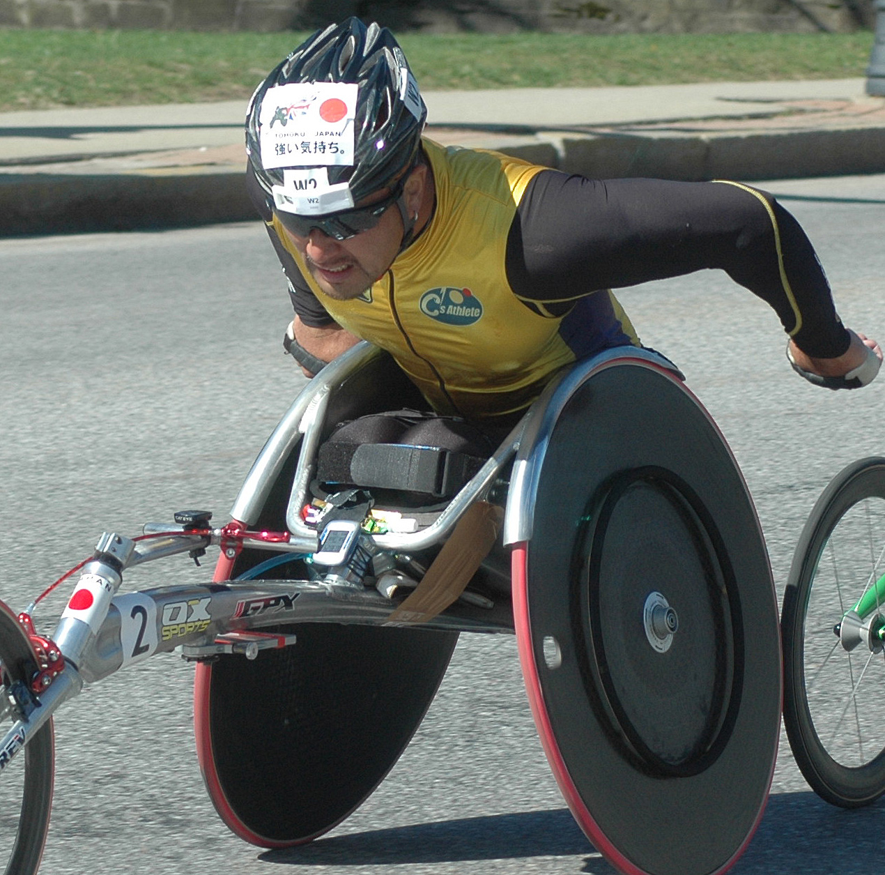 Masazumi Soejima who won the 2011 Boston Marathon men's wheelchair division here near the half way point at Wellesley Square.